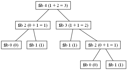 Tree of function calls to generate the fourth Fibonacci number.